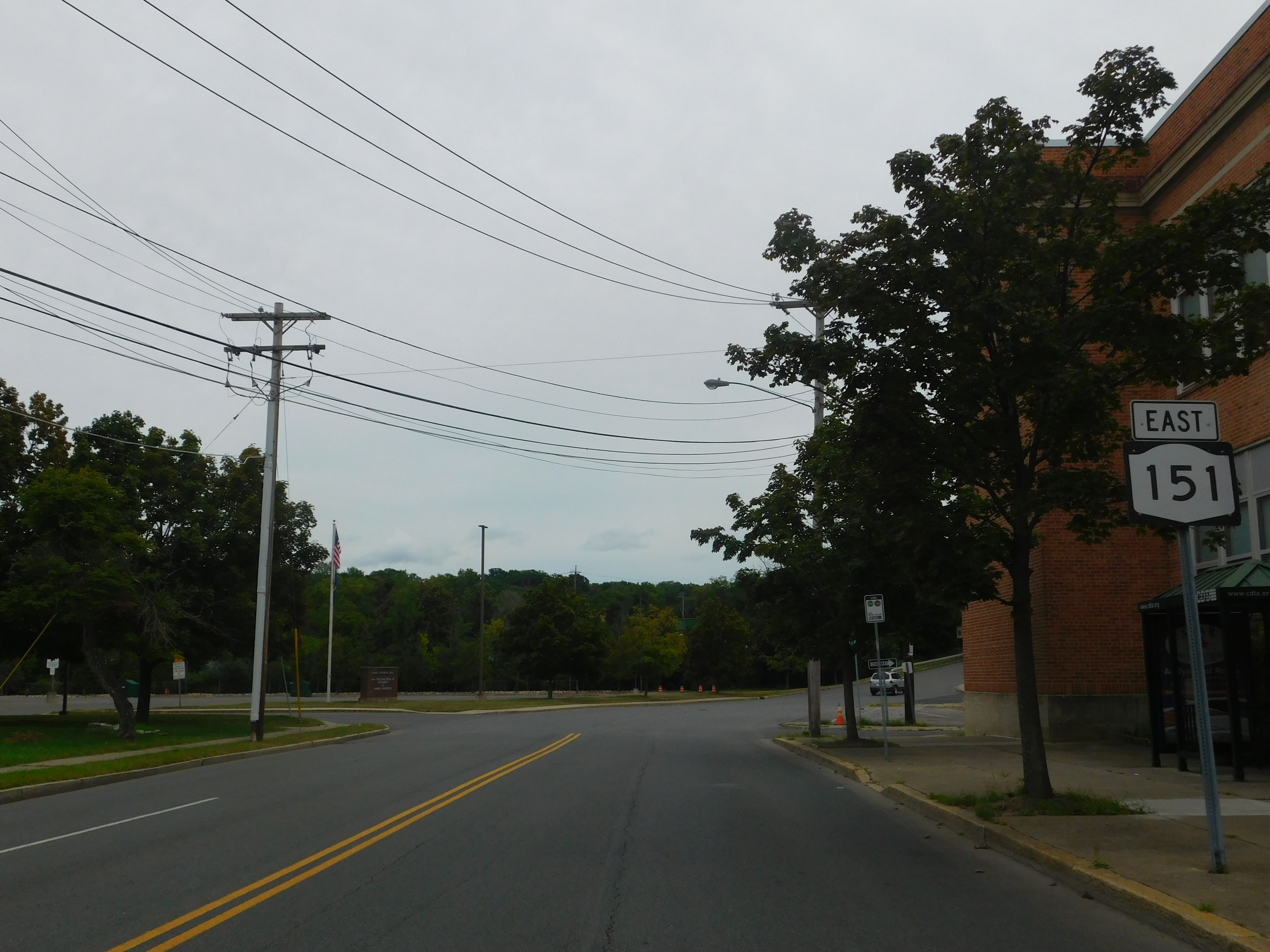 NY 151 eastbound in Rensselaer, New York.